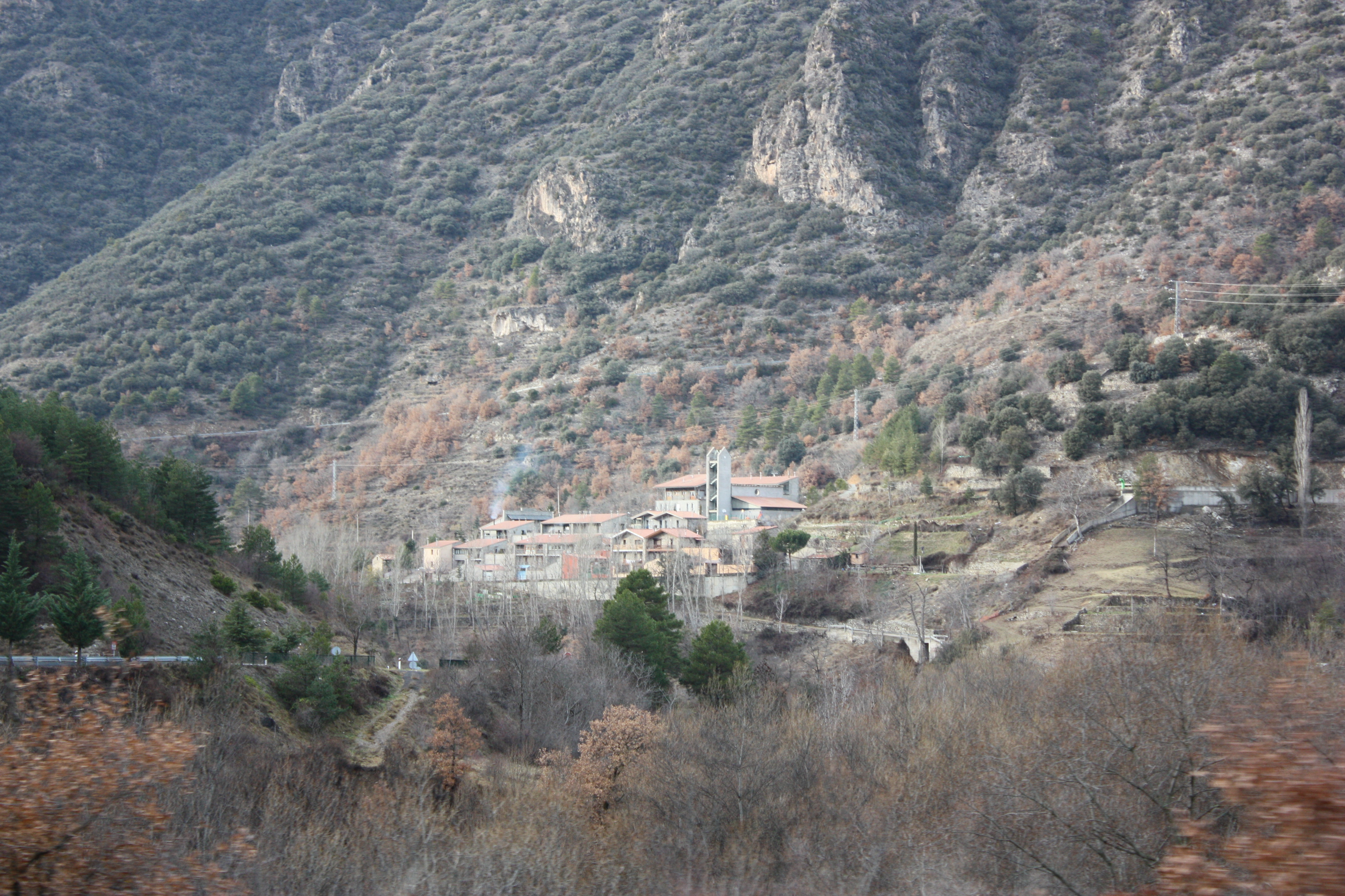 El Pont de Bar (Alt Urgell, Catalonia)